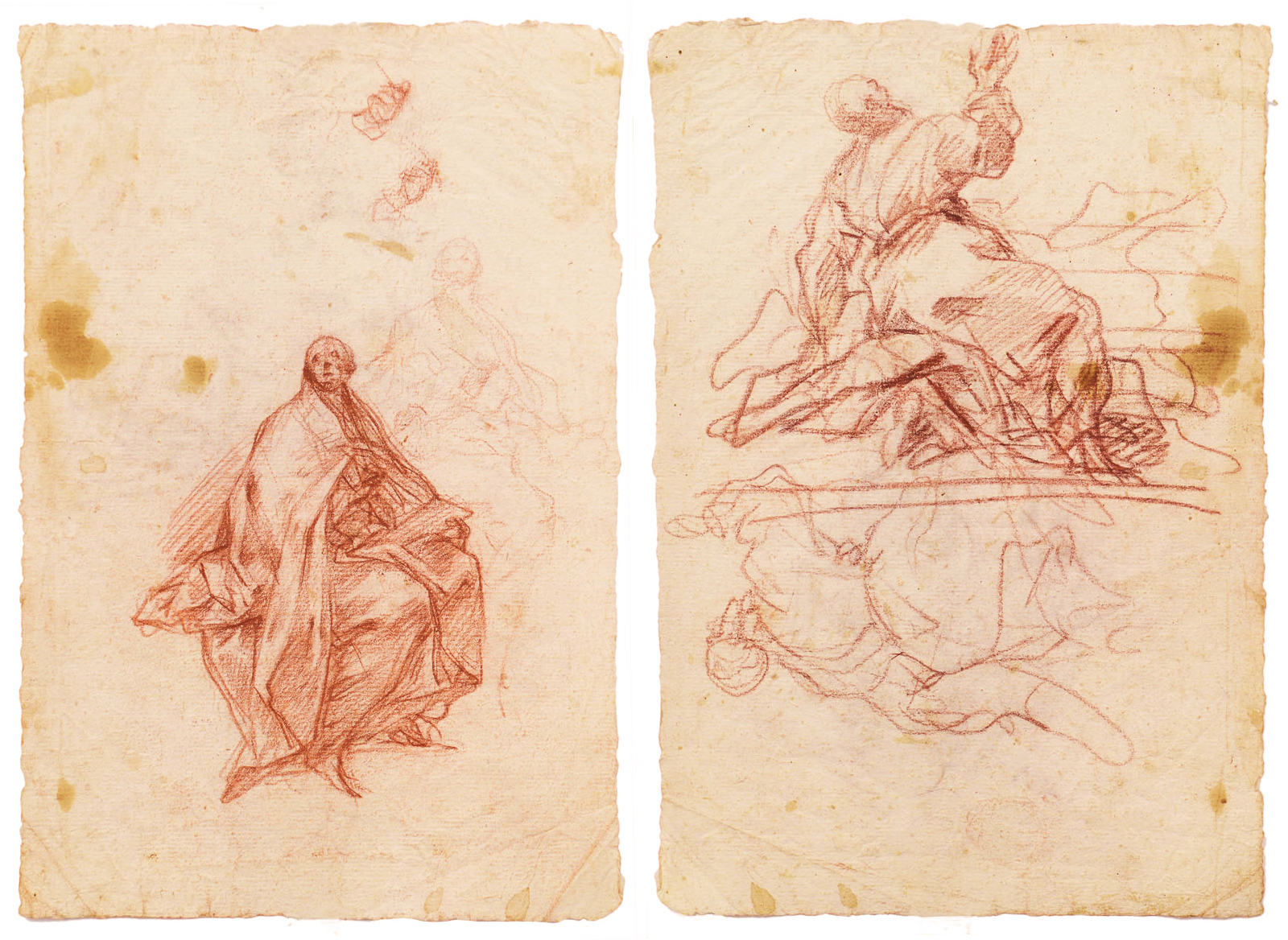 Preparatory sketch by Carlo Bartolomeo Borsetti (26,5 cm x 18 cm)